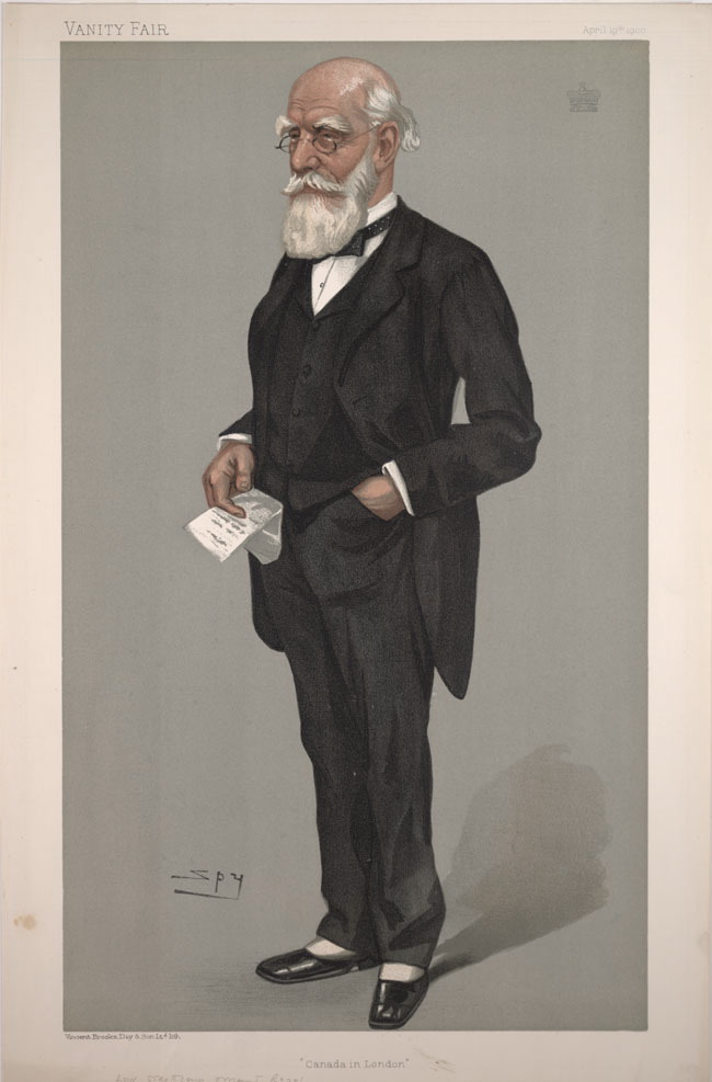 Statesmen No. 721: Caricature of Lord Strathcona and Mount Royal. Caption read "Canada in London".